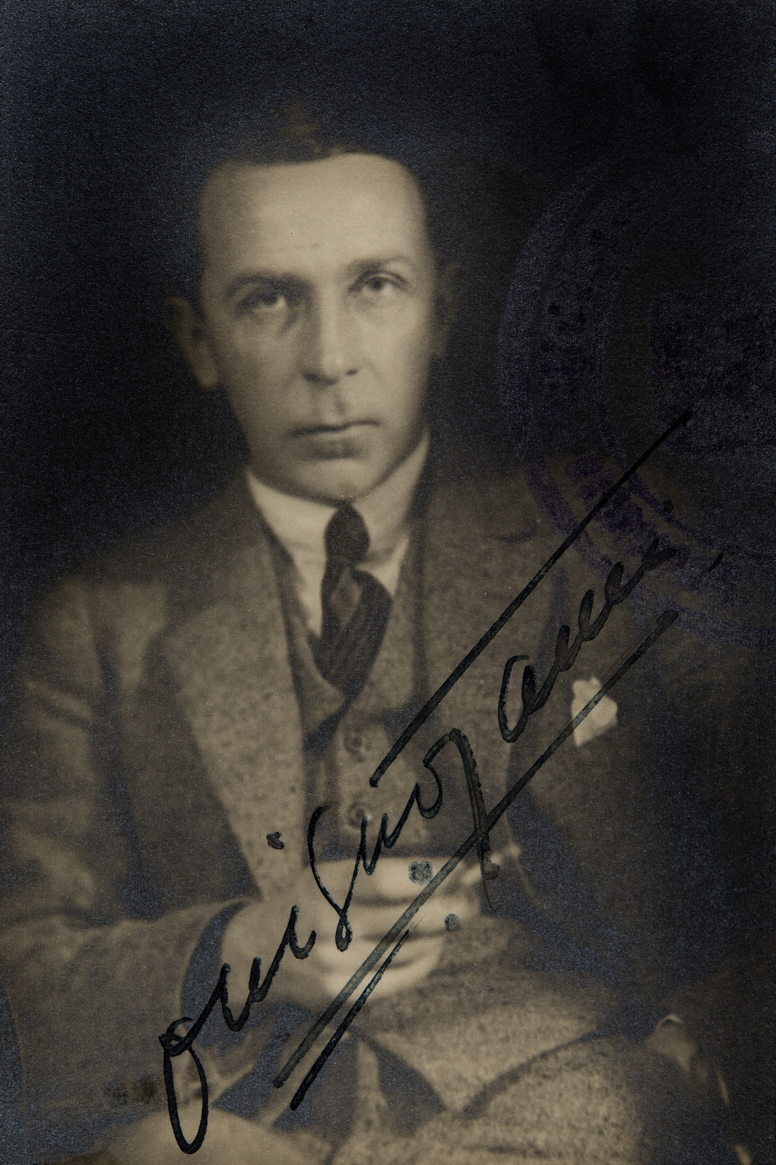 Passport photo of Olli Suolahti from 1920s